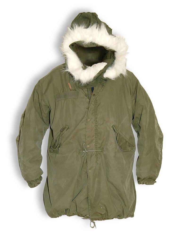 M-65 US Army Parka with Hood